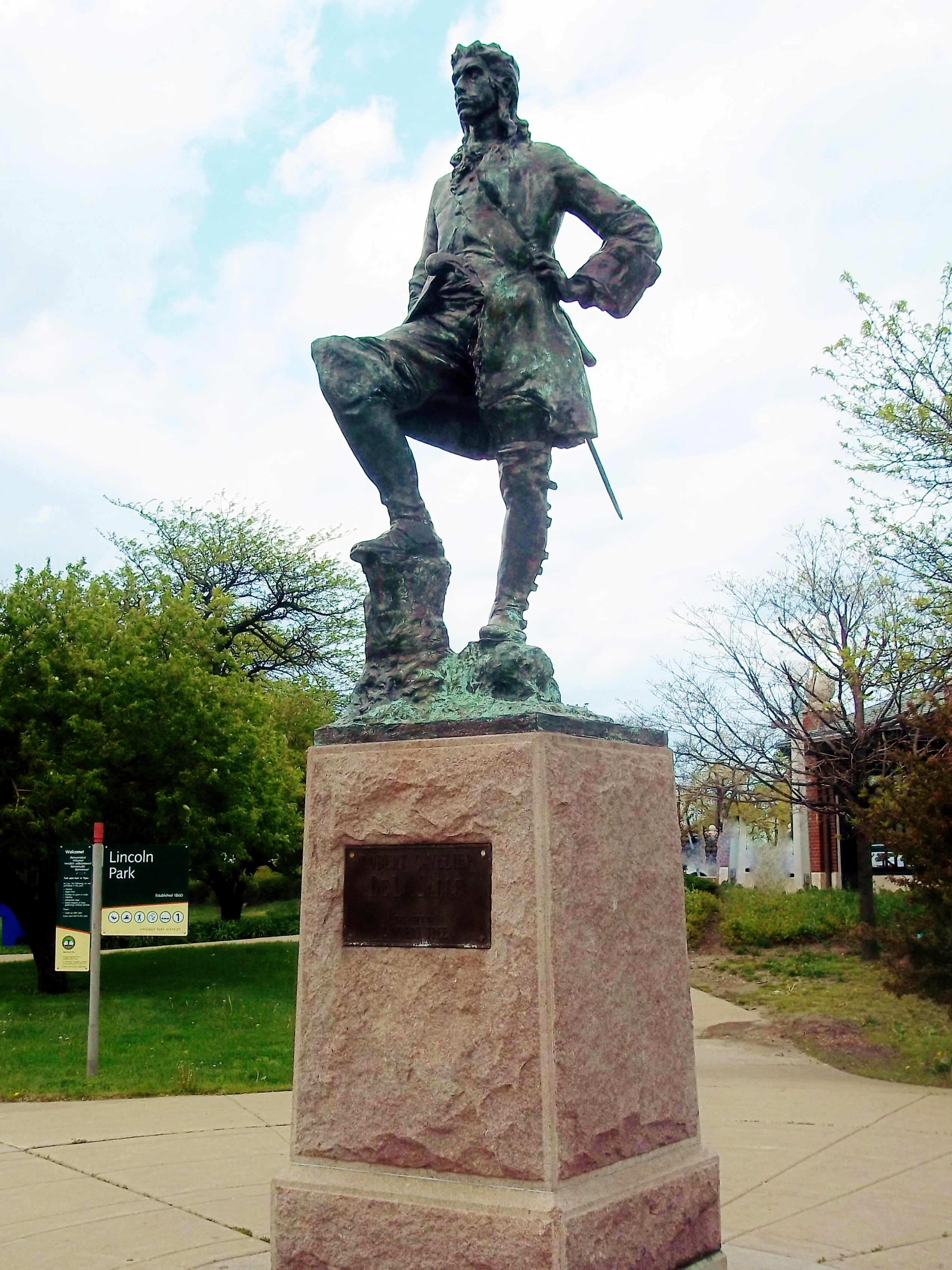 Statue of René-Robert Cavelier, Sieur de La Salle (1643-1687), by Jacques de Comte Lalaing (1858-1917), in Lincoln Park, Chicago, installed 1889